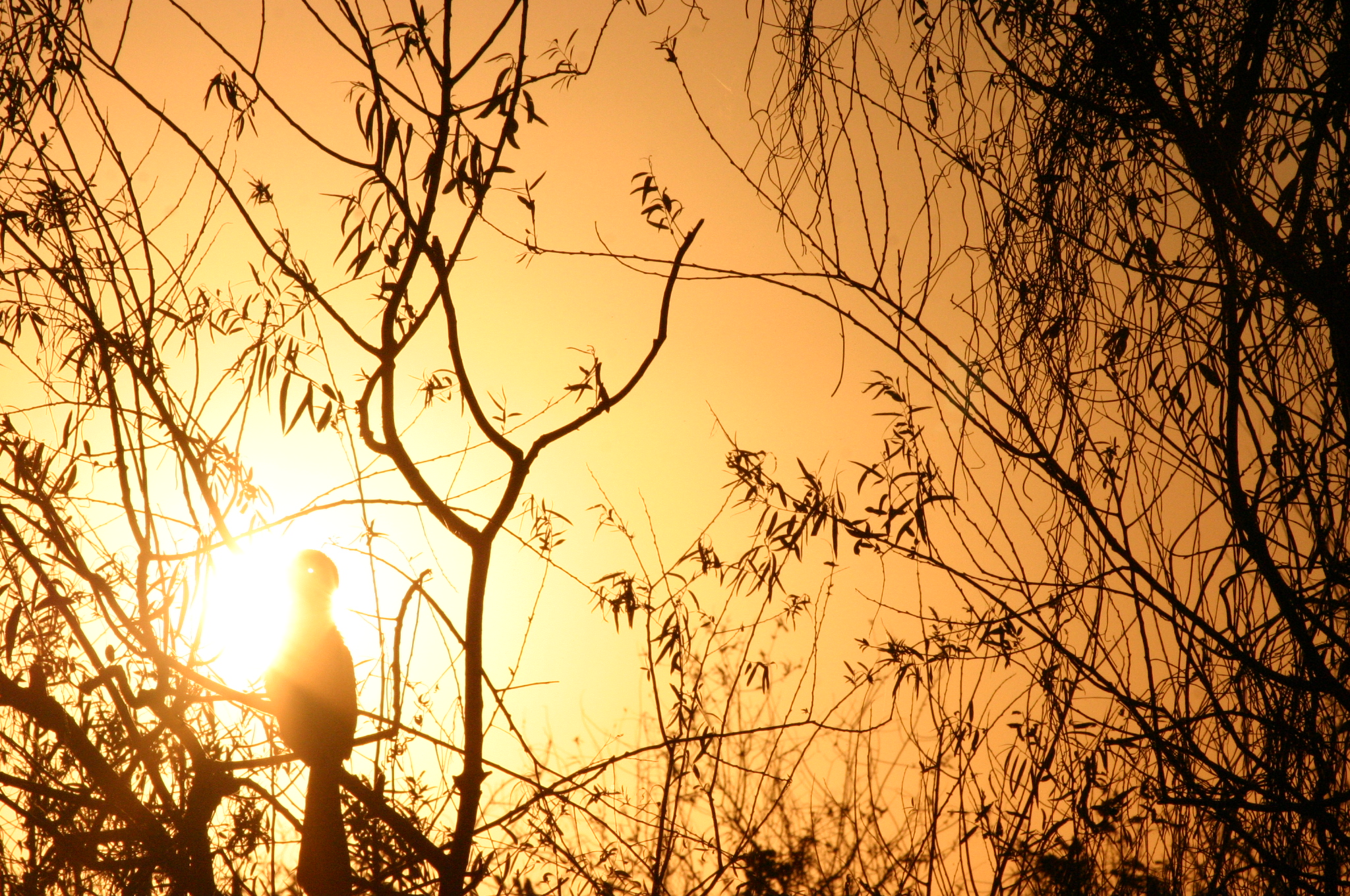 Anhinga anhinga watching sunset over marshes